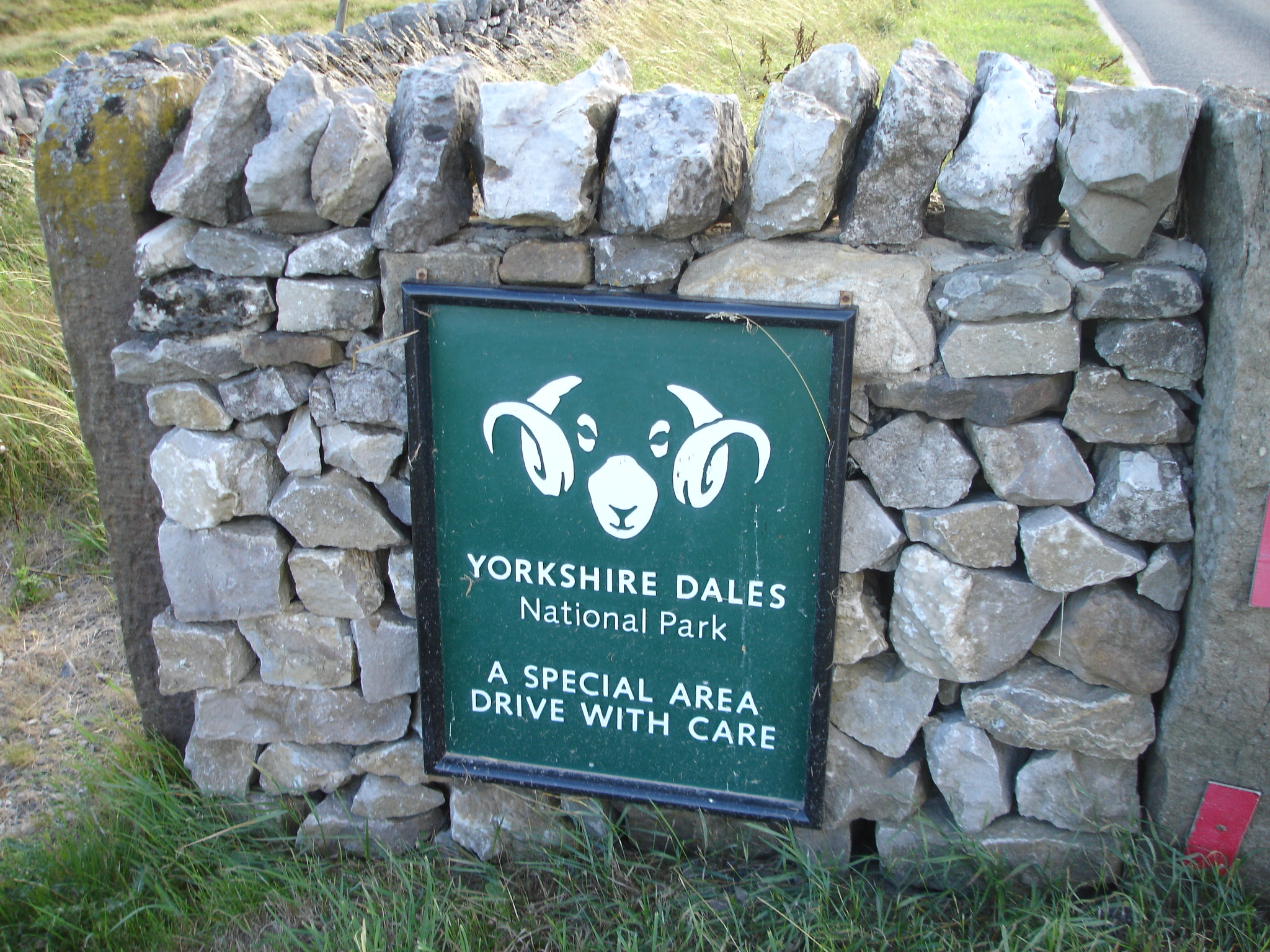 Own Personal Photography, taken August 2006